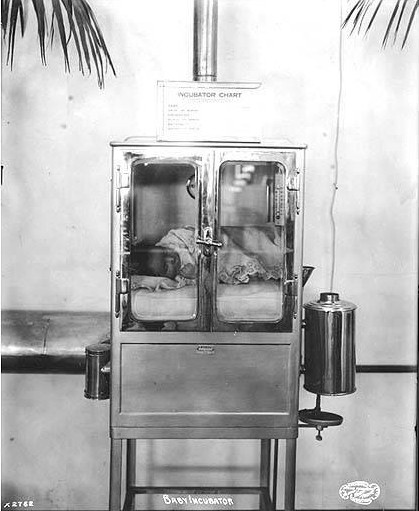 Baby incubator exhibit, Pay Streak, Alaska Yukon Pacific Exposition, Seattle, Washington, 1909. Photographer: Nowell, Frank H., 1864-1950 Subjects (LCSH): Incubators Pay Streak (Seattle, Wash.) Alaska-Yukon-Pacific Exposition (1909 : Seattle, Wash.) Exhibitions--Washington (State)--Seattle Digital Collection: Alaska-Yukon-Pacific Exposition Collection Item Number: AYP536 Persistent URL: University of Washington Libraries. Digital Collections